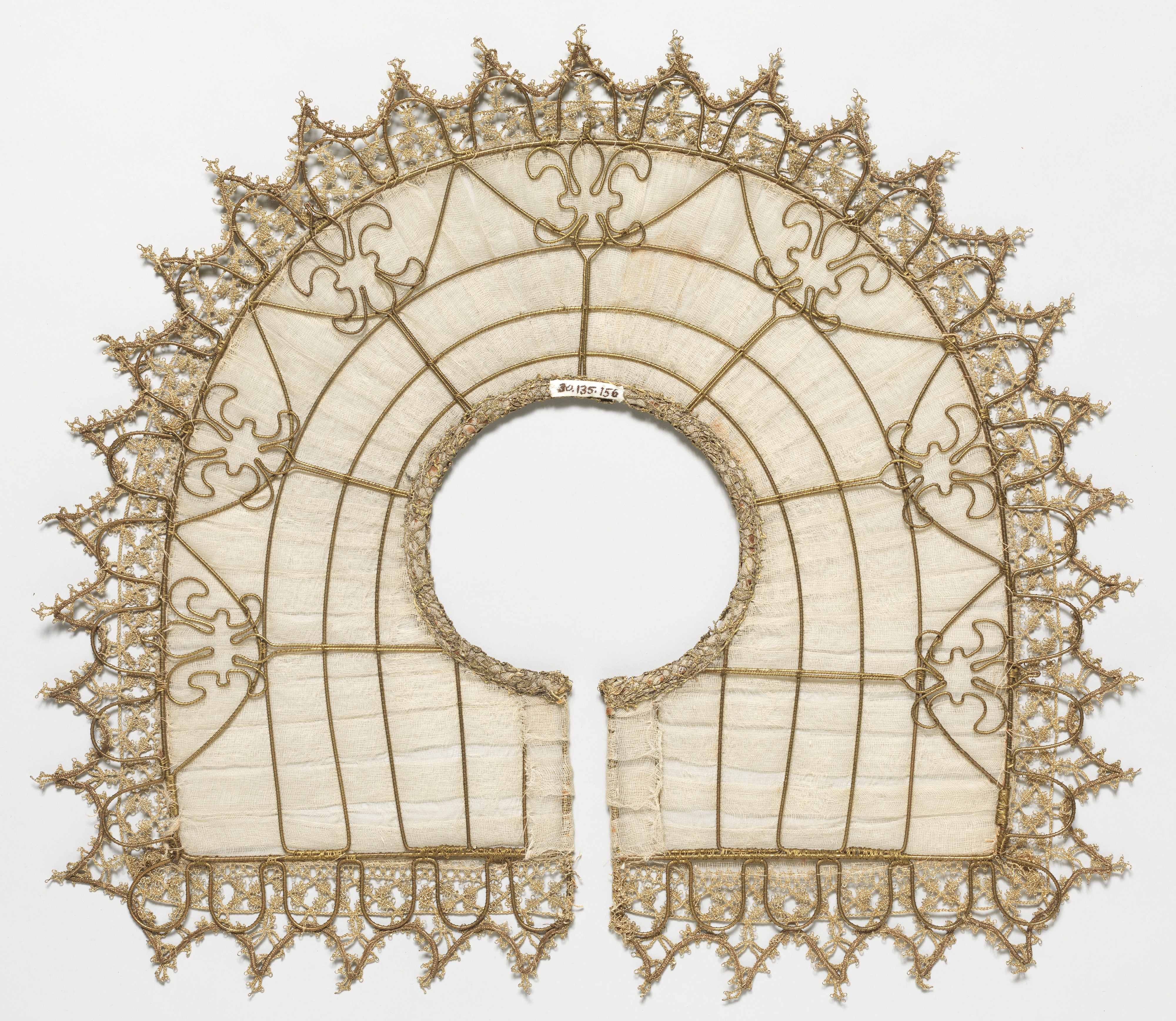 Possibly French; Collar; Textiles-Laces